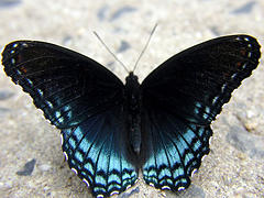 Photo of a Red-spotted Purple butterfly taken by Michael Parker at Tyler State Park, Pennsylvania. Original